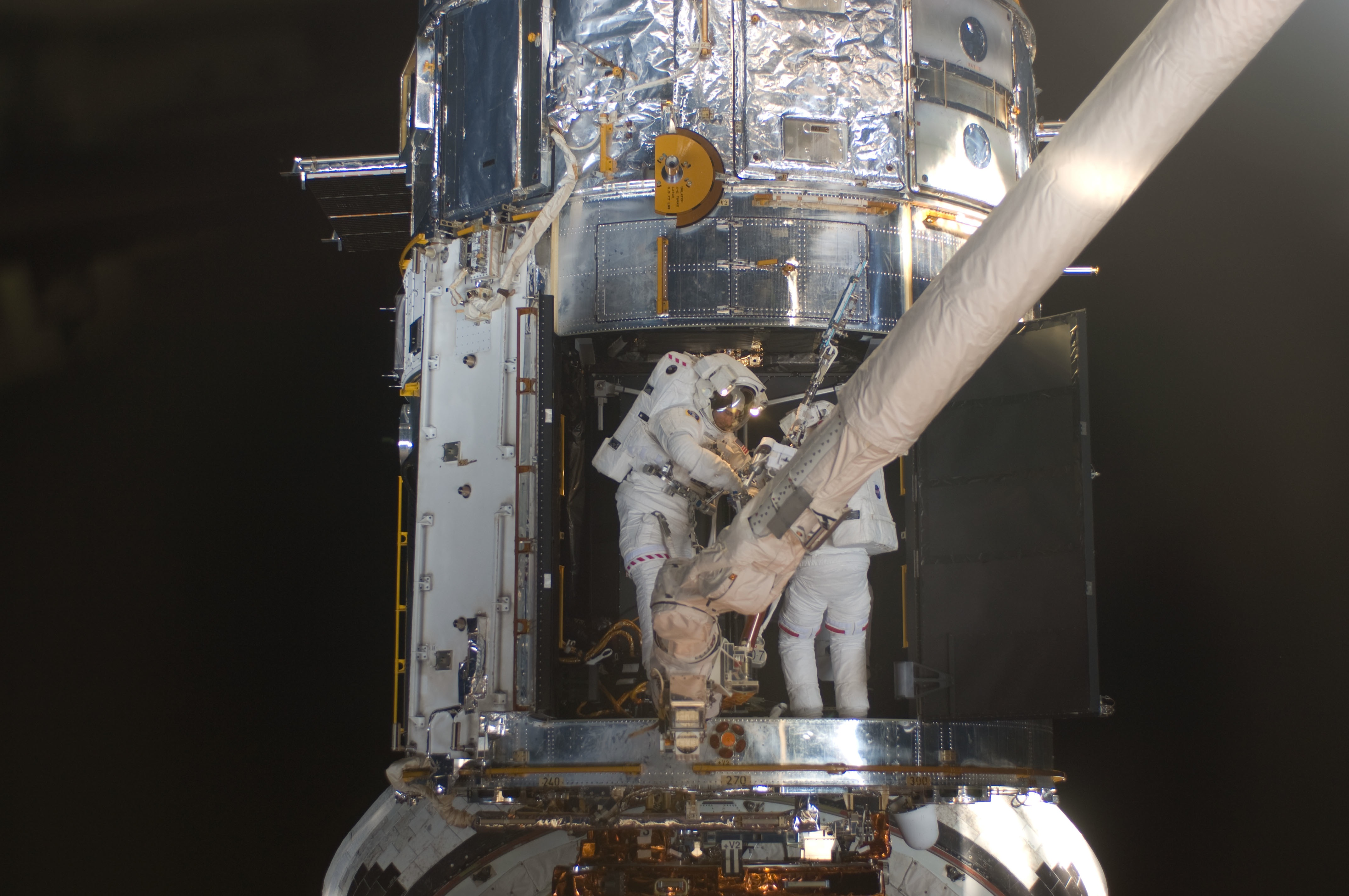 Astronauts Michael Good (left) and Mike Massimino, both STS-125 mission specialists, participate in the mission's fourth session of extravehicular activity (EVA) as work continues to refurbish and upgrade the Hubble Space Telescope. During the eight-hour, two-minute spacewalk, Massimino and Good continued repairs and improvements to the Space Telescope Imaging Spectrograph (STIS) that will extend the Hubble's life into the next decade.